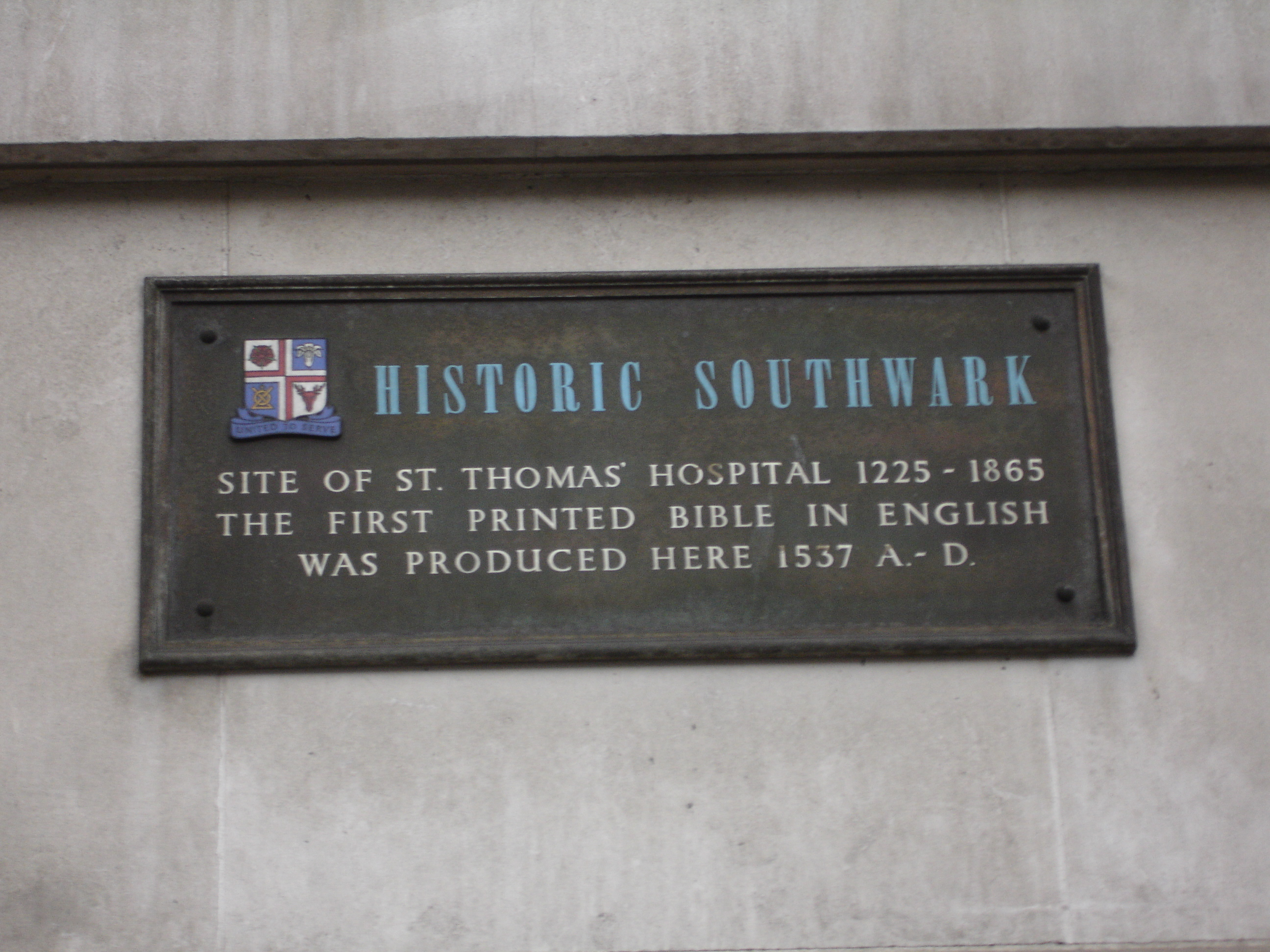 Site of St. Thomas' Hospital 1225-1865 The first printed bible in English was produced here 1537 A.-D.